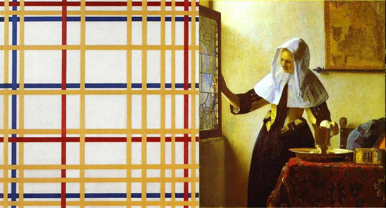 Mondrian : New York City 1942 + Vermeer : Young woman with a water pitcher